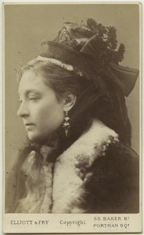 Lydia Foote born Lydia Alice Legg was a theatre actress by Elliott and Fry dated 1873